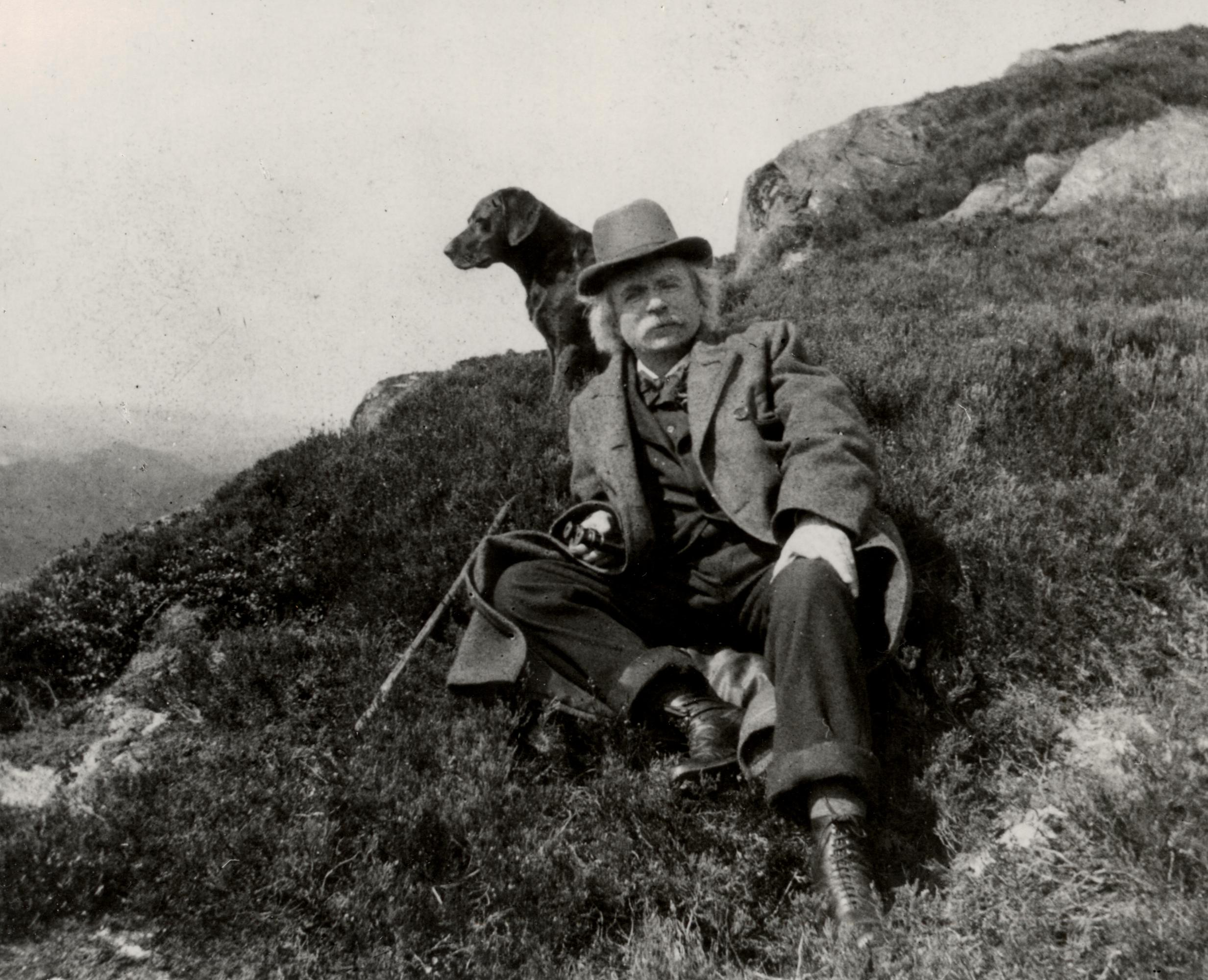 Artist: unknown Date/place: ca. 1900, Løvstakken/Bergen/Norway Subject: Edvard Grieg hiking with dog Medium: photographic positive/negative, B&W Notes: original in Hindrichsen (Peters) collection Persistent URL: [#//nettbiblioteket.no/grieg-samlingen/engelsk/grieg_intro_eng.html” Edvard Grieg Archives at Bergen Public Library]